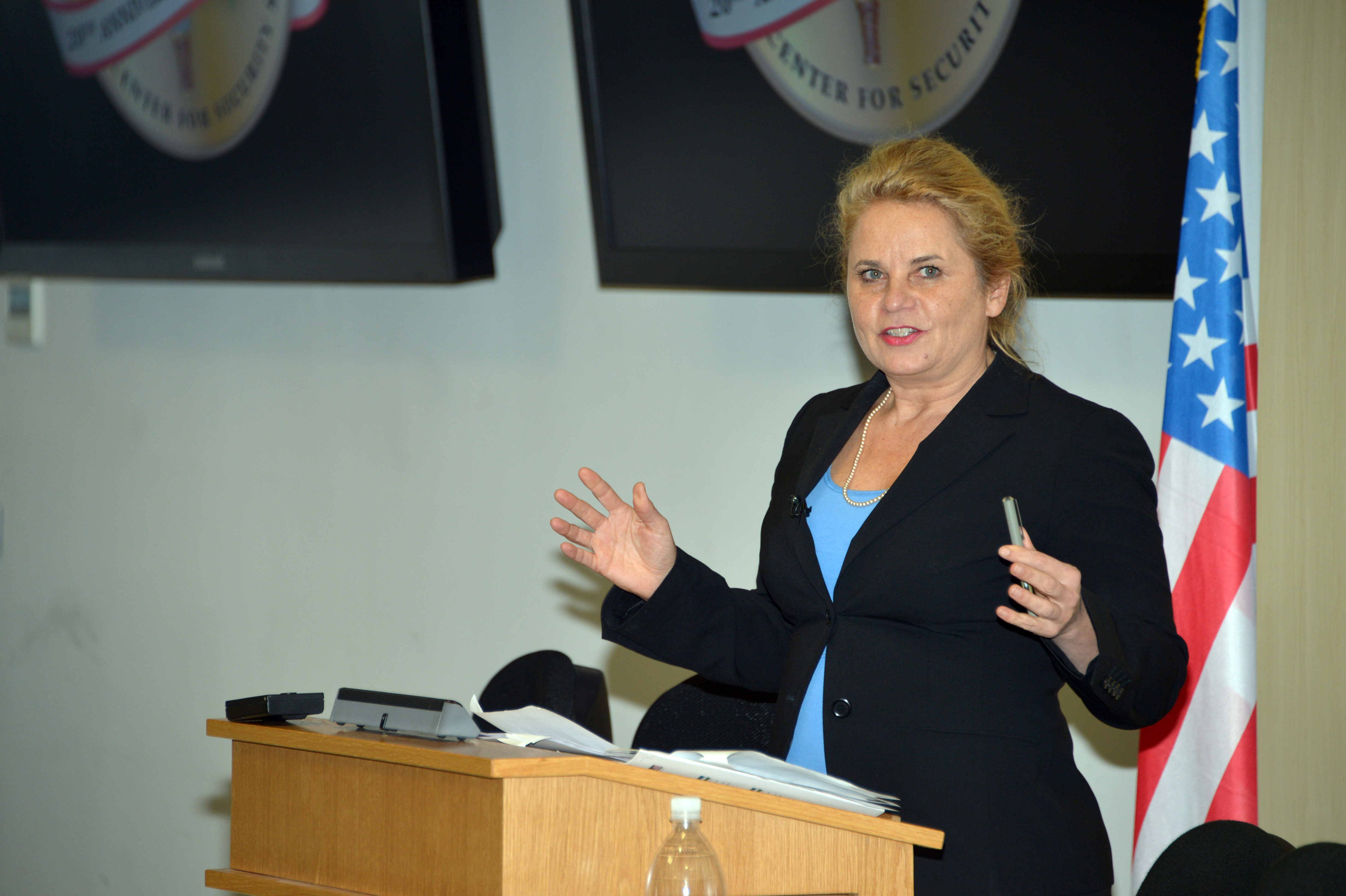 Susanne Koelbl, a reporter with Der Spiegel, a German weekly news magazine, talks to the participants of the Program on Security Sector Capacity Building Nov. 19 at the George C. Marshall European Center for Security Studies in Garmisch-Partenkirchen, Germany. Koebel, whose focus includes military and state reporting, spoke for about 45 minutes and took questions from the group. The Marshall Center program provides a forum for partner and allied countries, as well as states recovering from internal conflict, to lean to reform and build successful and enduring security institutions and agencies. The program, which saw a number of guest lecturers during its three-week run, graduates Nov. 22.